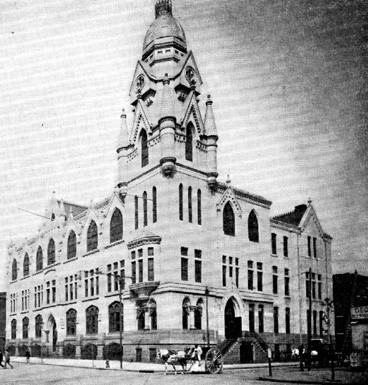 Roman Catholic High School as it appeared in 1900